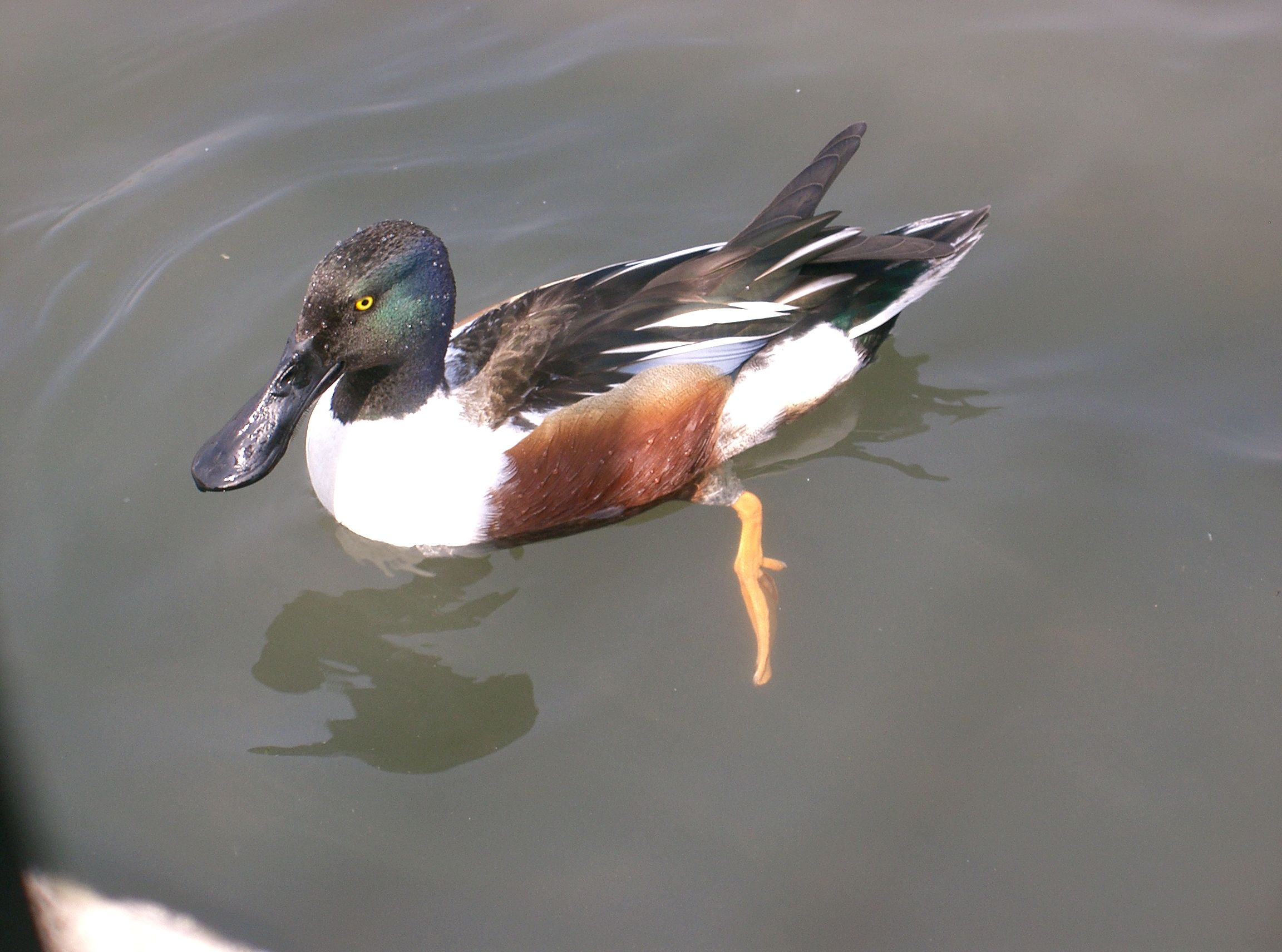 Anas clypeata